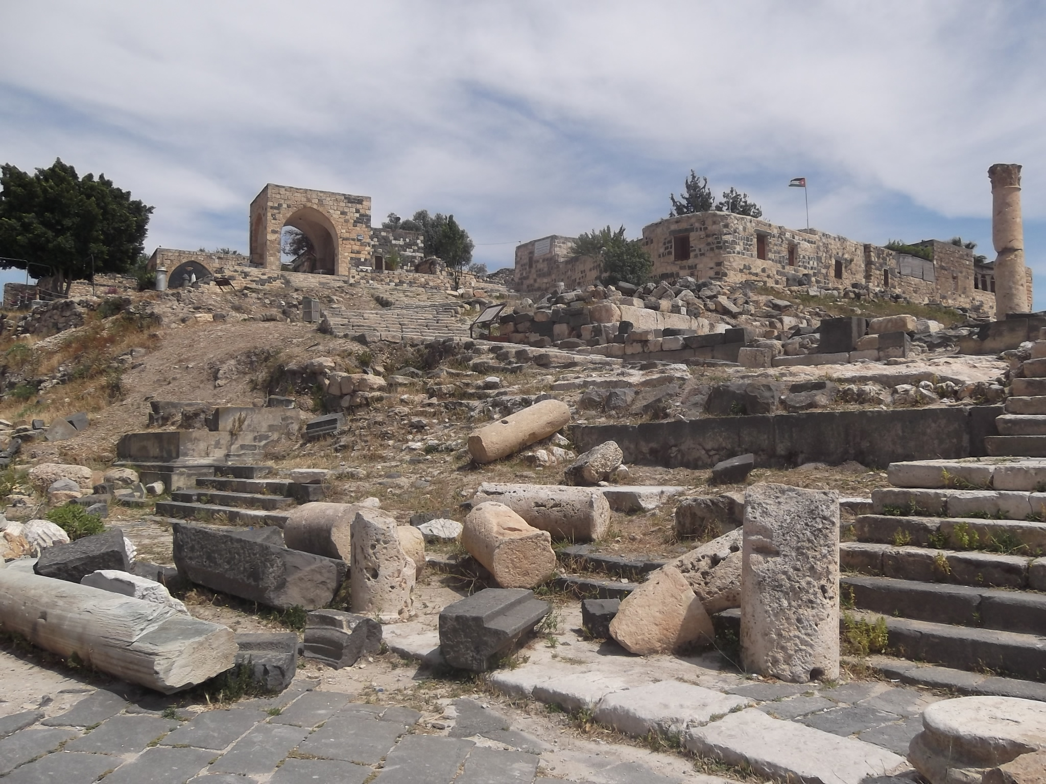 Roman ruins at Umm Qais, Jordan.